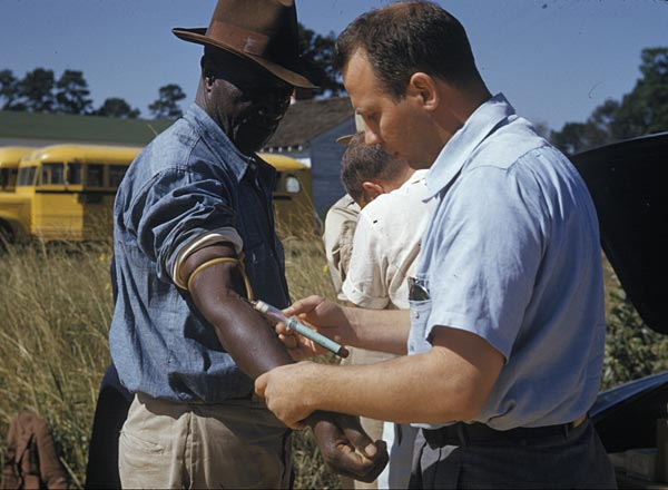 An African American male is tested and treated during the Tuskegee Study of Untreated Syphilis in the Negro Male. According to the Centers for Disease Control and Prevention, the study began in 1932 as U.S. Public Health Service medical personnel conducted these tests without the benefit of patients’ informed consent. (Courtesy photo from the Centers for Disease Control and Prevention/Released)